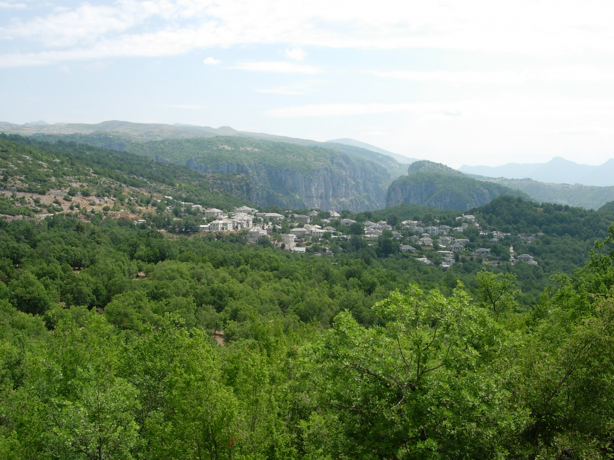 own work Août 2005 Vincent C Village Monodendri, Epire Grèce, parc national de Vikos-Aoos.